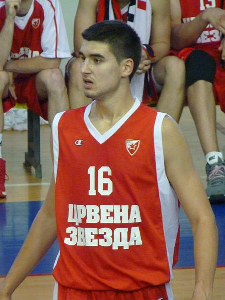 Dusan Ristic, basketball player